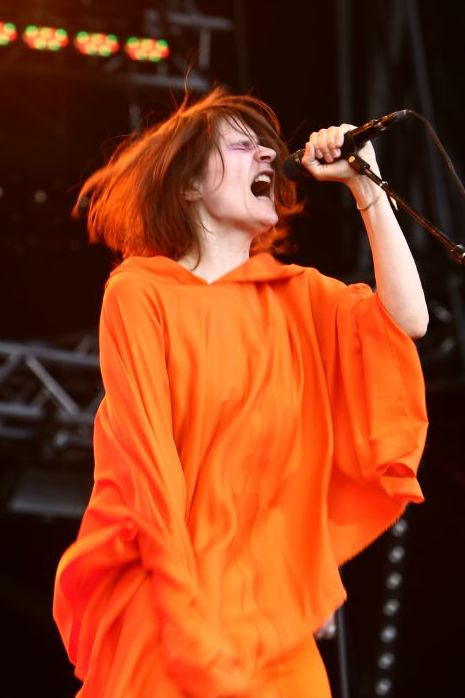 Camille at the Eurockéennes 2008